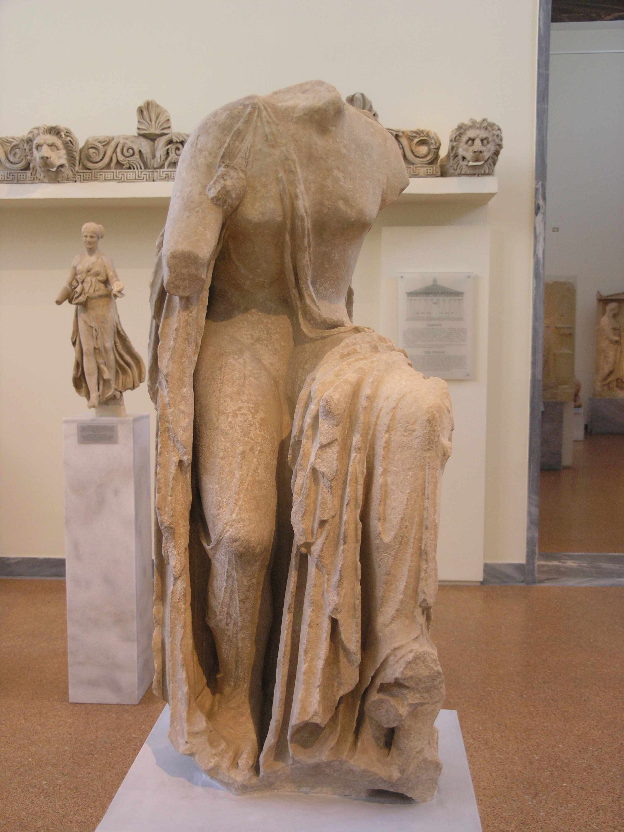 Statue of Hygieia. The goddess is depicted leaning forwards to feed the snake, the symbol of Askleopios and of Hygieia herself, part of which is preserved next to her left leg.